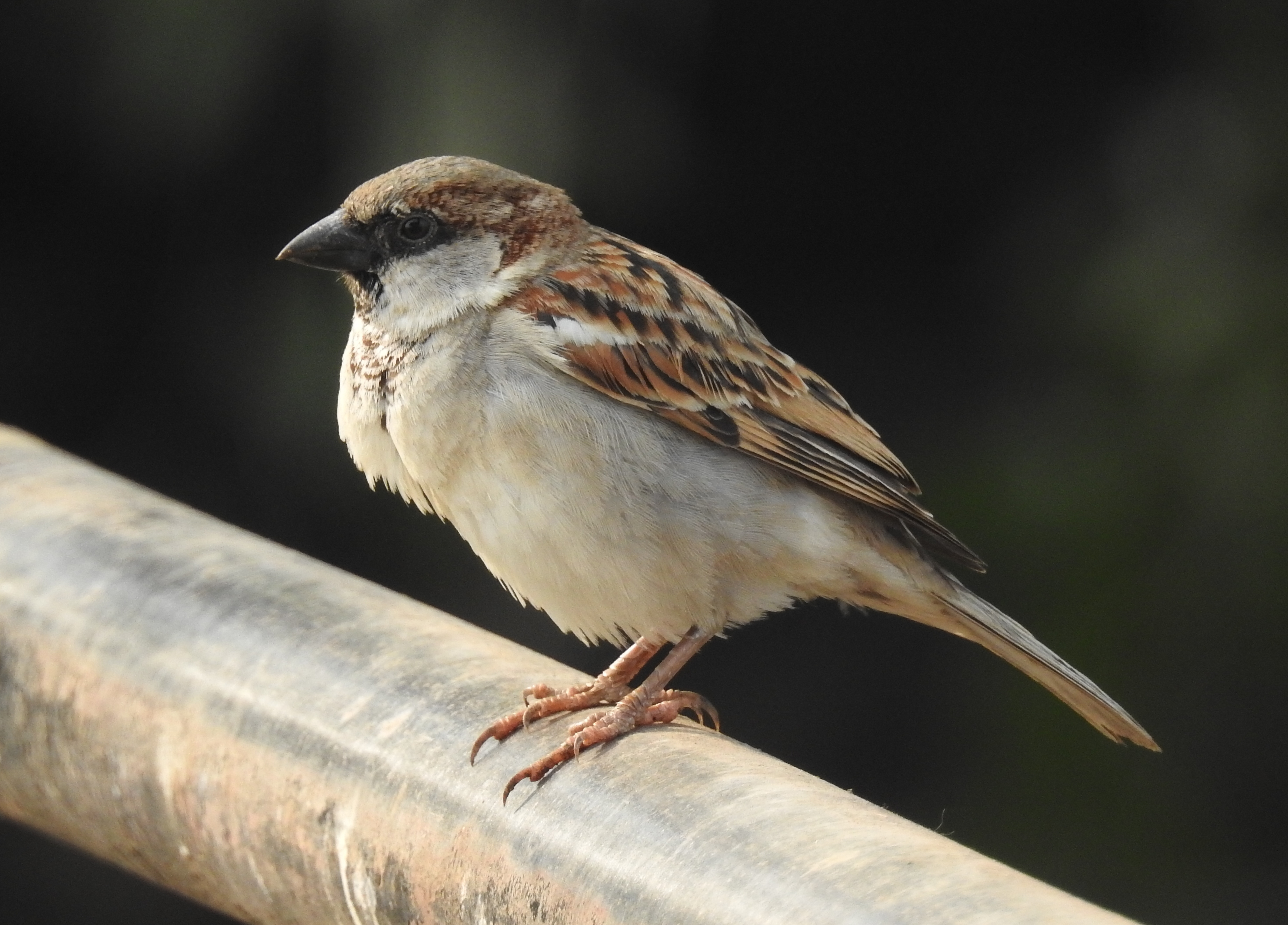 House Sparrow Passer domesticus Male. Photograph taken by Dr. Raju Kasambe in Thane district, Maharashtra, India.